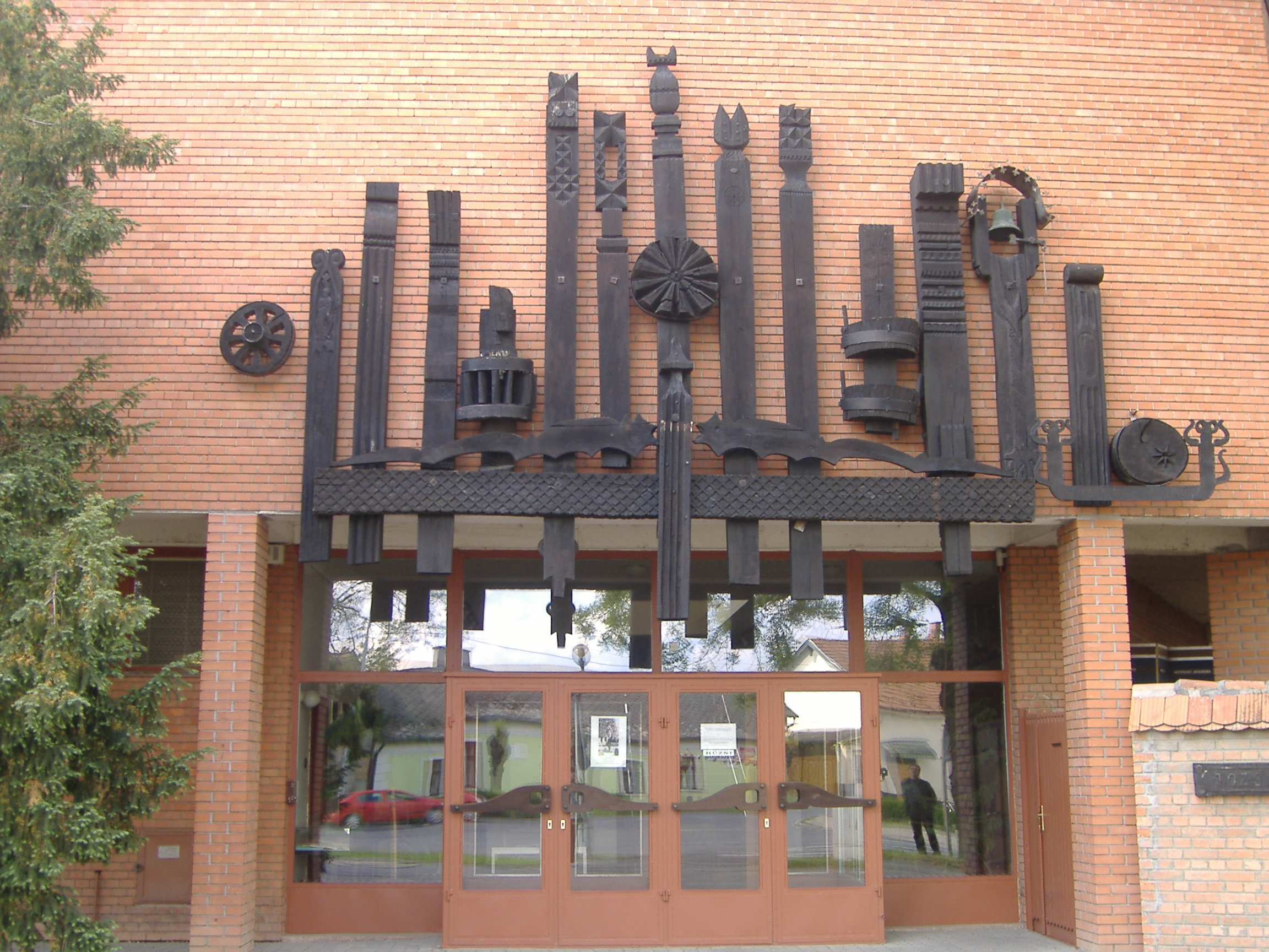 The entry of the Attila József Museum in Makó, Hungary.